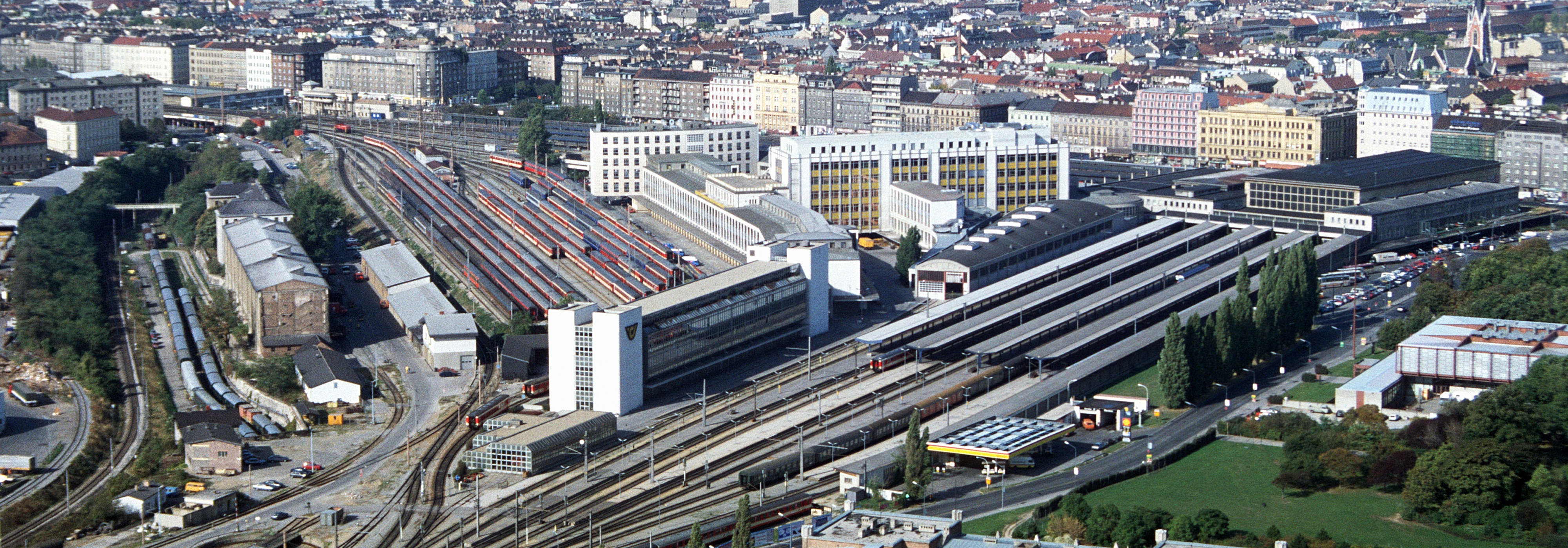 Südbahnhof in Vienna, the eastern side seen from Arsenal radio tower. The buildings in the middle were one of Vienna's central post offices and demolished in 2008/2009. The railway station was demolished in February and March 2010.